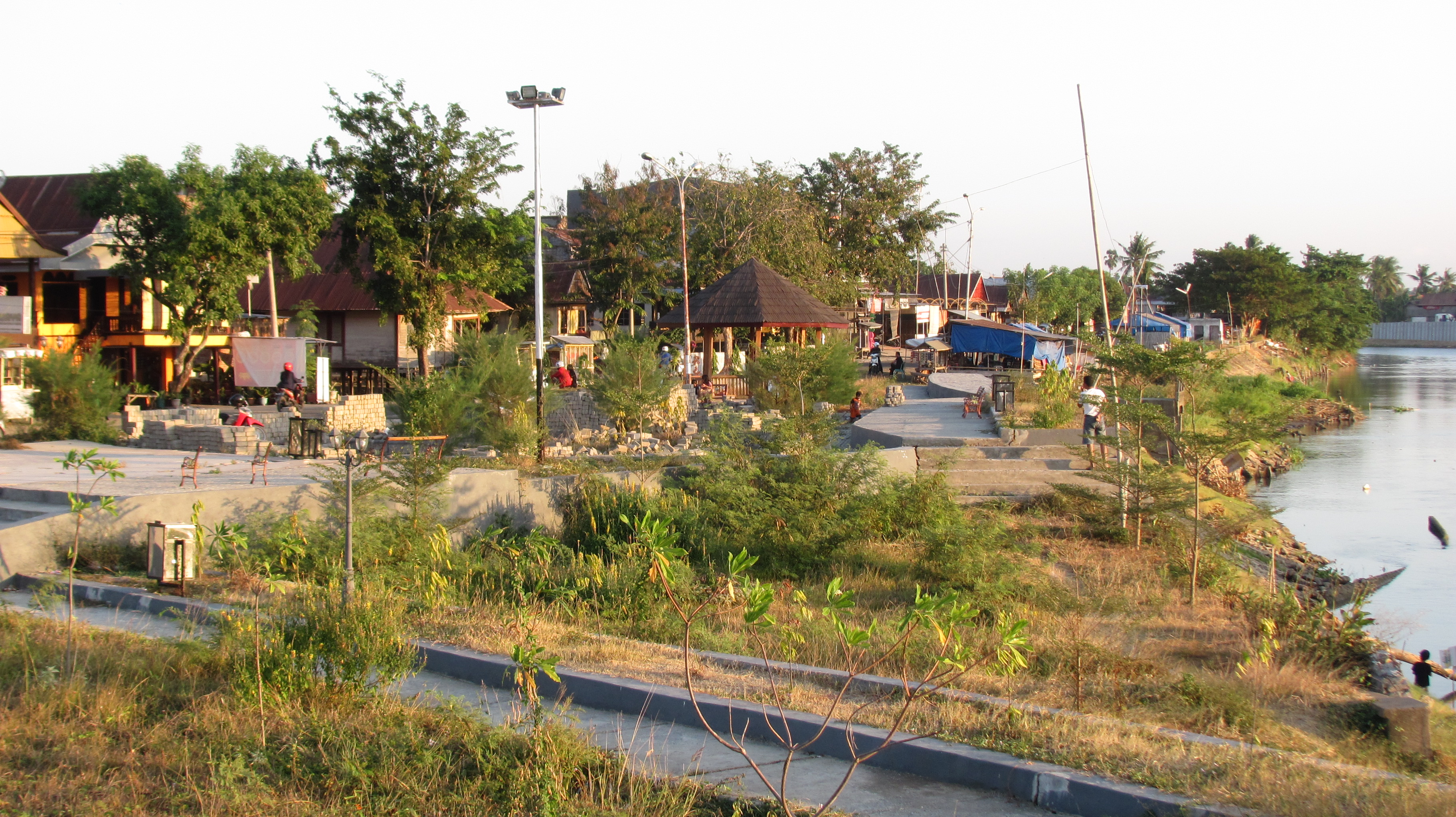 Park "Taman Padduppa", Sengkang town, Sulawesi island, indonesia